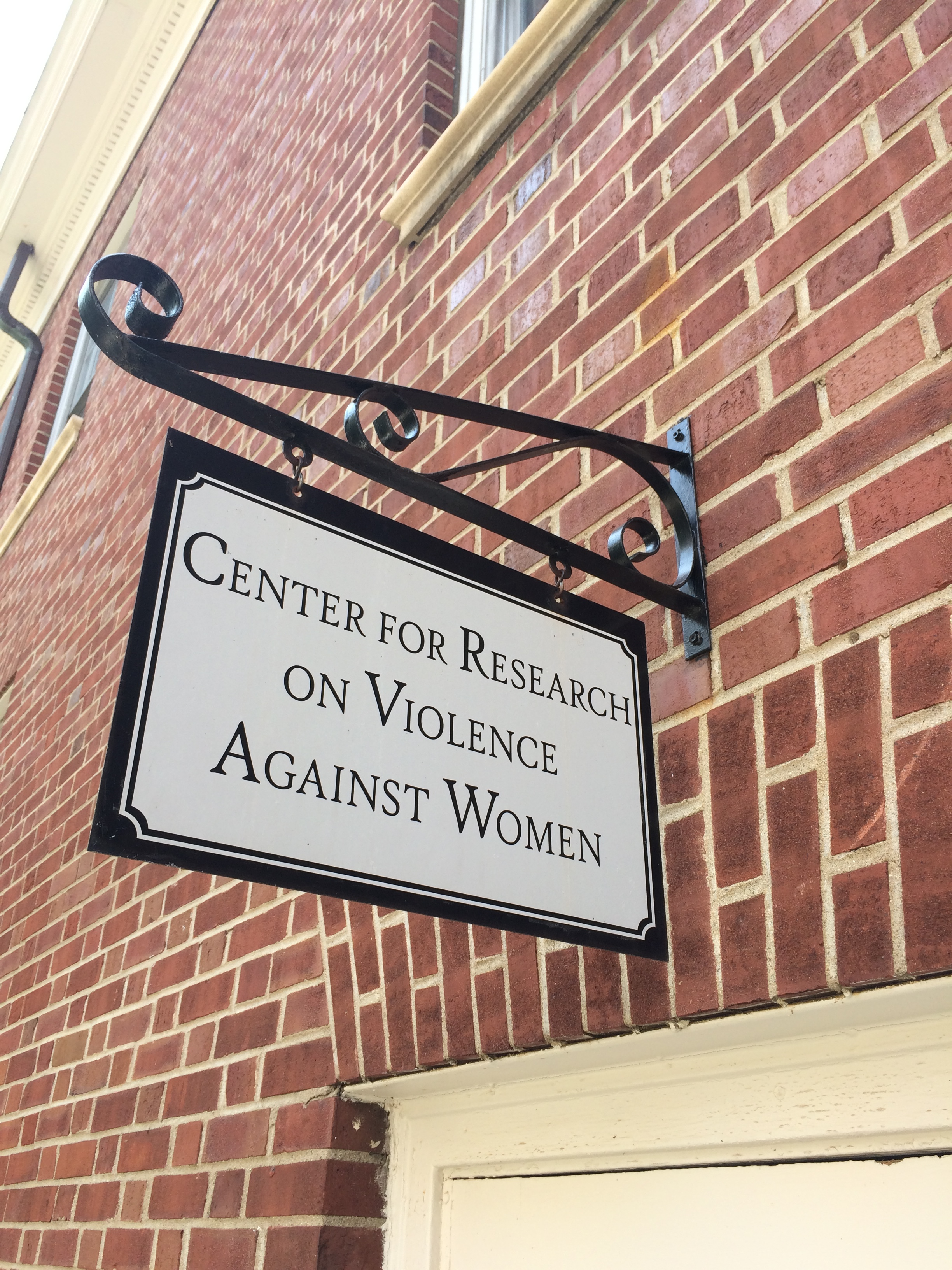 Center Sign